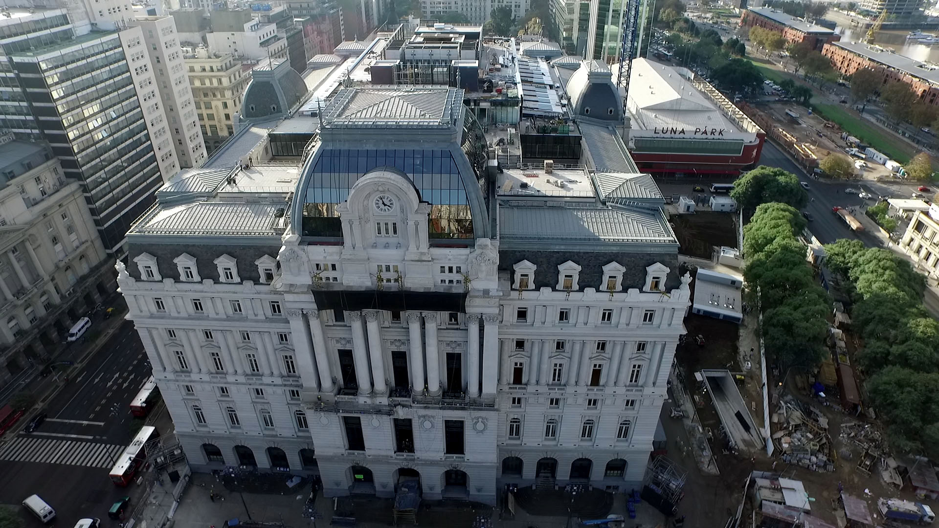 Aerial view of the former Central Post Office of Buenos Aires, currently the Néstor Kirchner Cultural Centre.